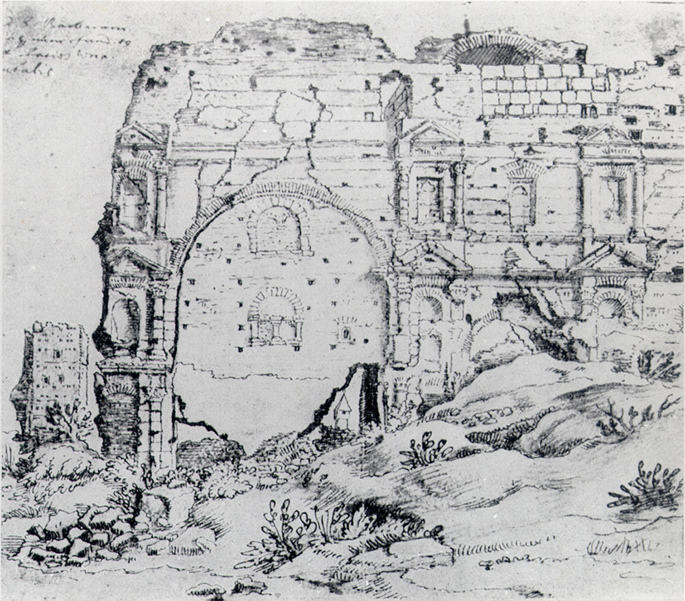 Roman baths Barbarathermen in Trier until 1611